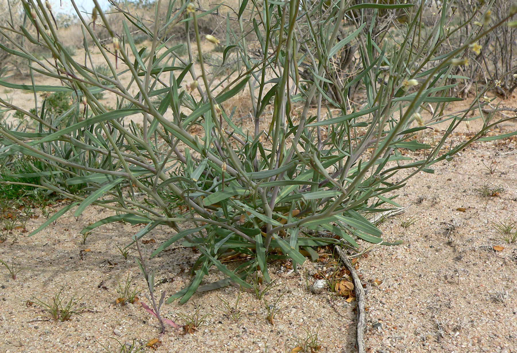 Streptanthella longirostris in sand below hills by Soda Dry Lake, 3 km south of Baker, California